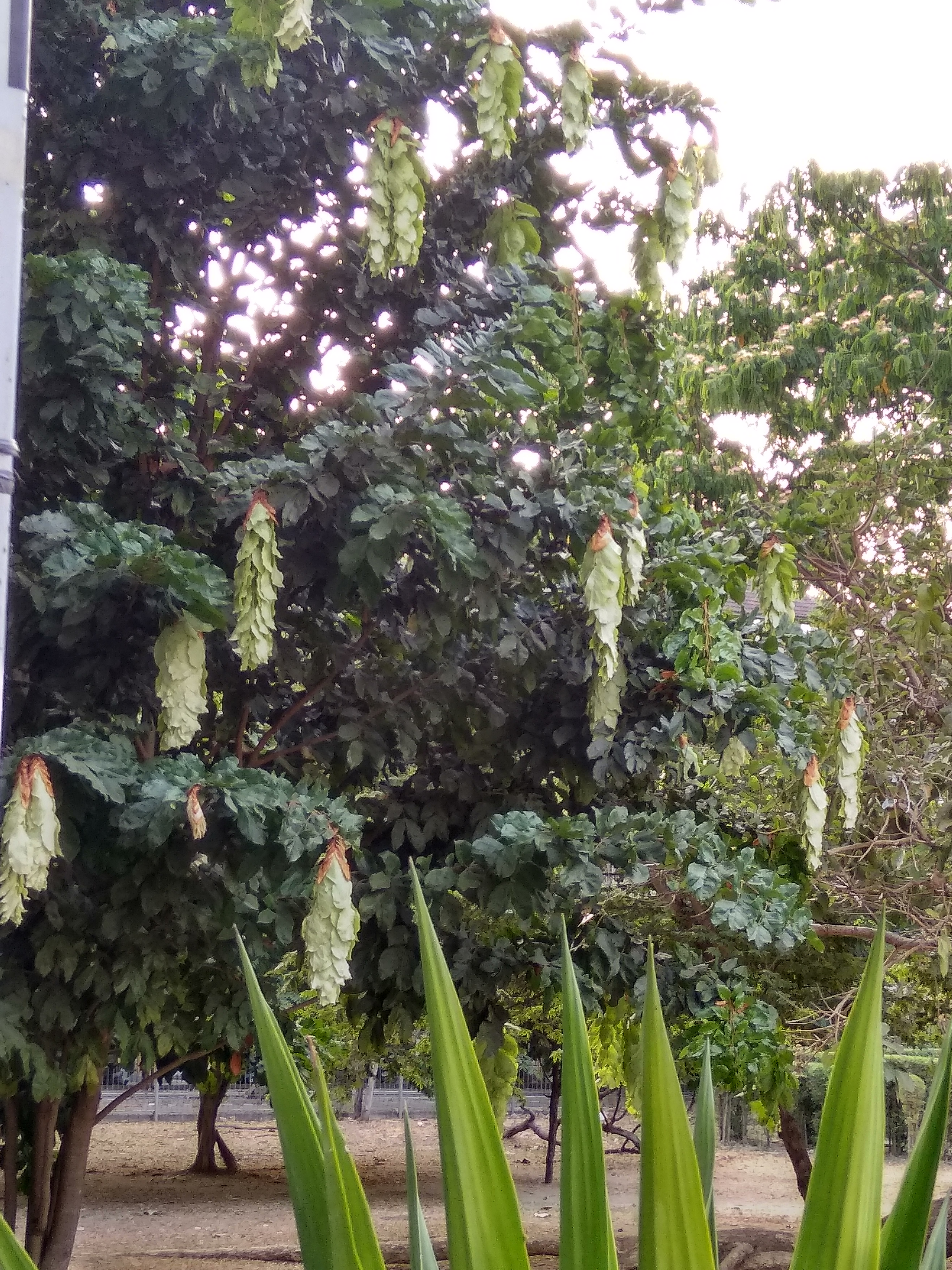 Cynometra Ramiflora Linn